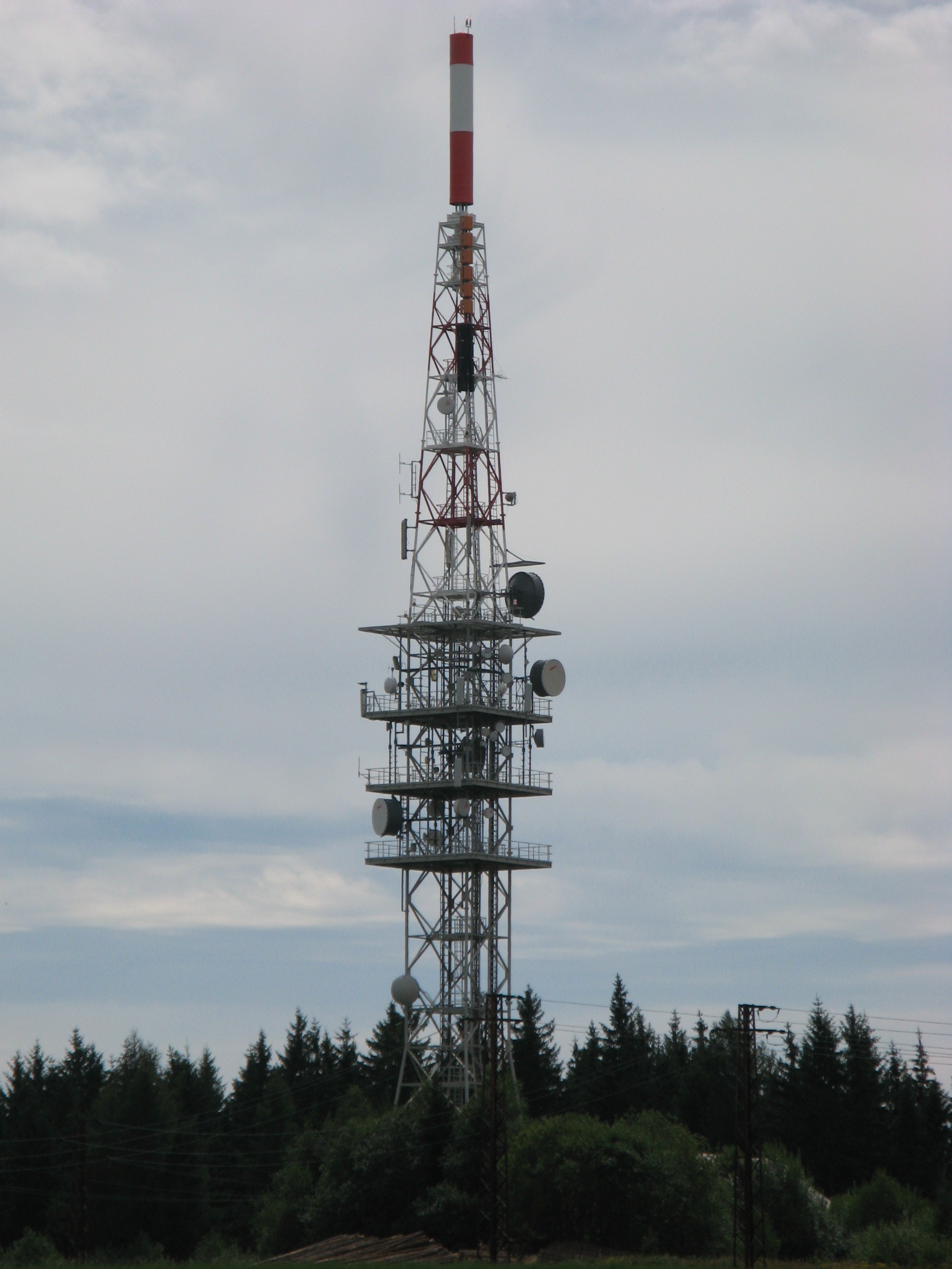 Television tower (Kamenná Horka), Czech Republic